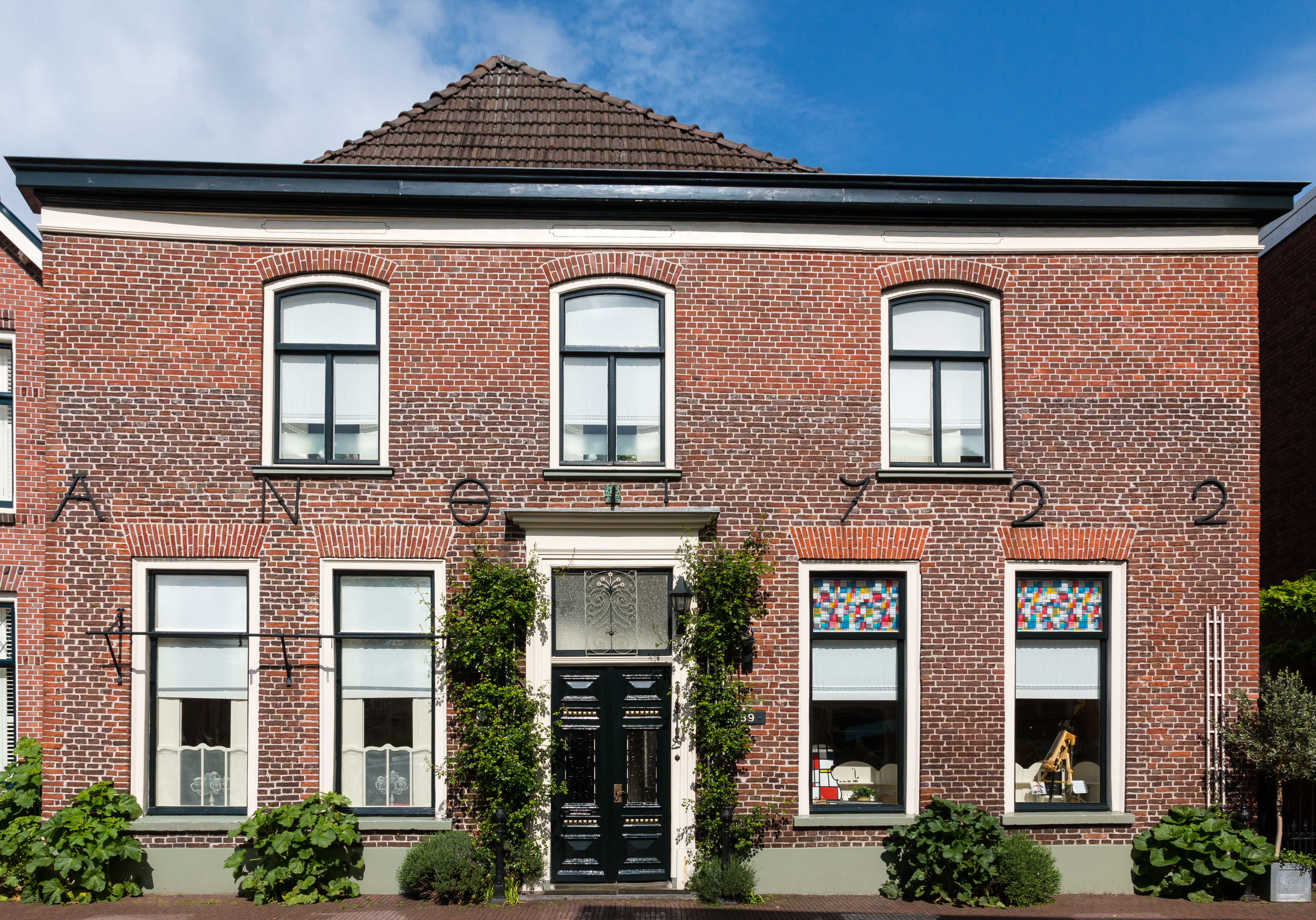 House “Drost Paschen” in Winterswijk, Netherlands